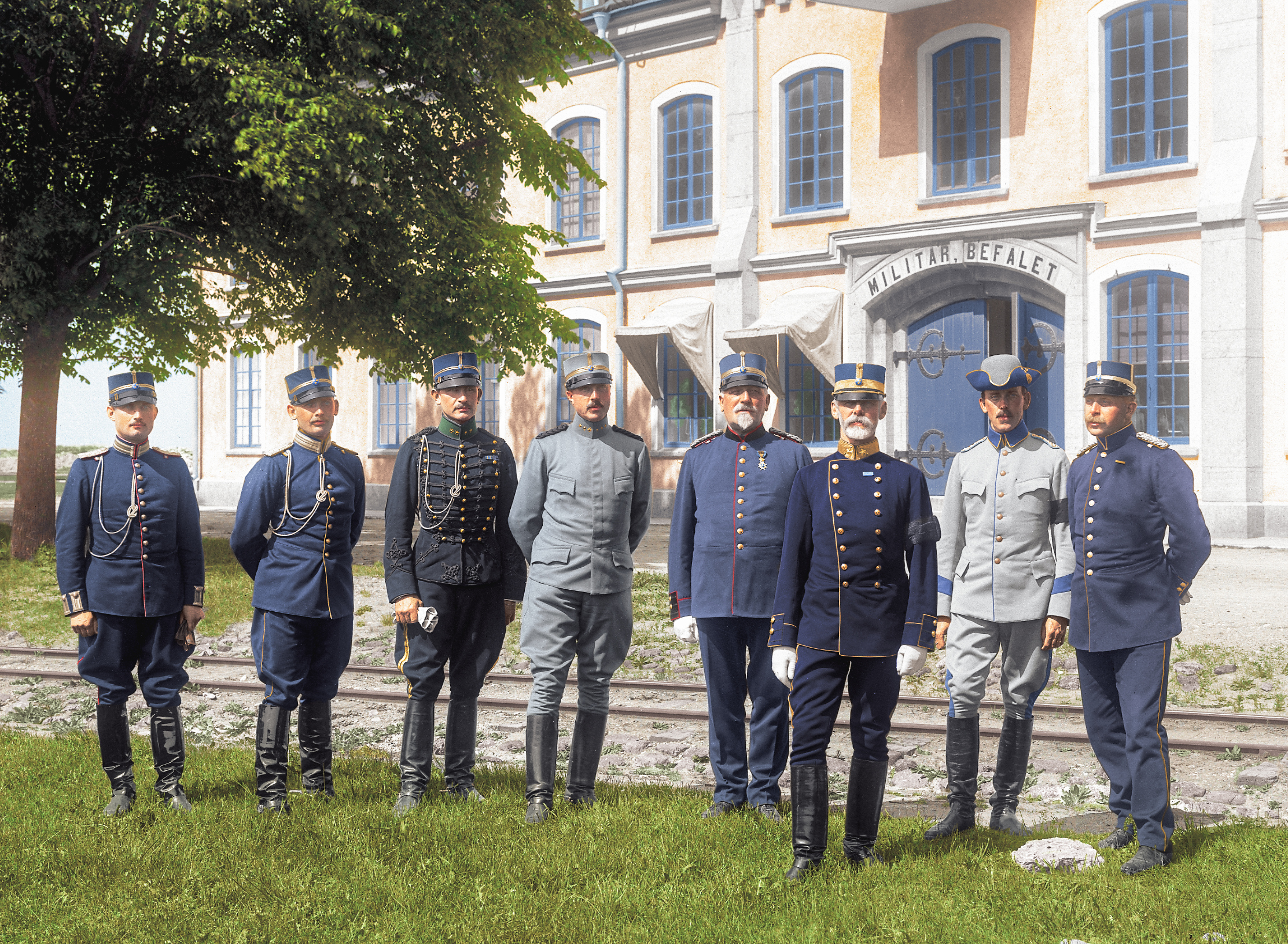 Photograph part of Lagergren-Gardsten photo collection and was provided Swedish National Archives - Regional State Archives in Visby. Riksarkivet - Landsarkivet i Visby. Colorizer of historical photos.